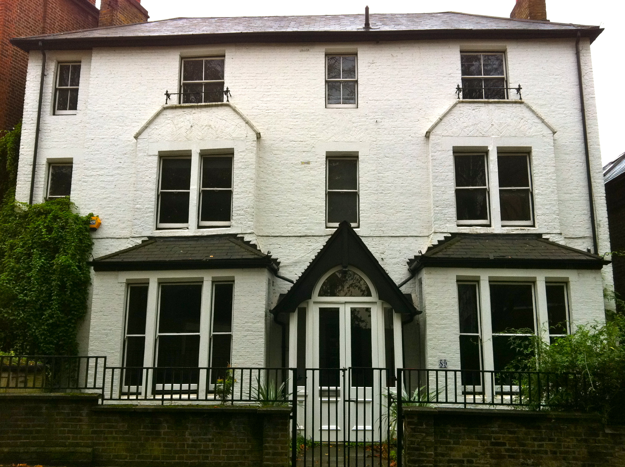 A house located at 89 Southwood Lane where Graham Chapman lived with his partner David Sherlock until his death.